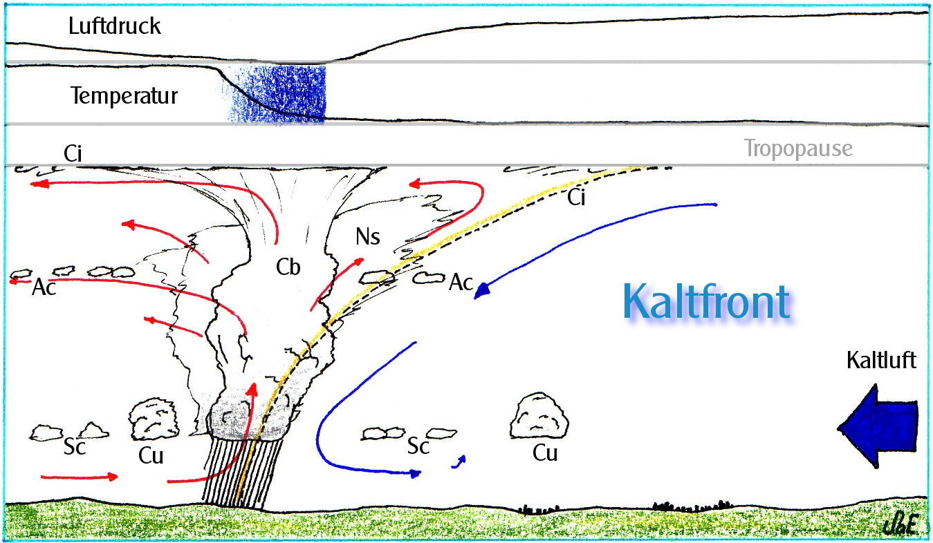 Cold front